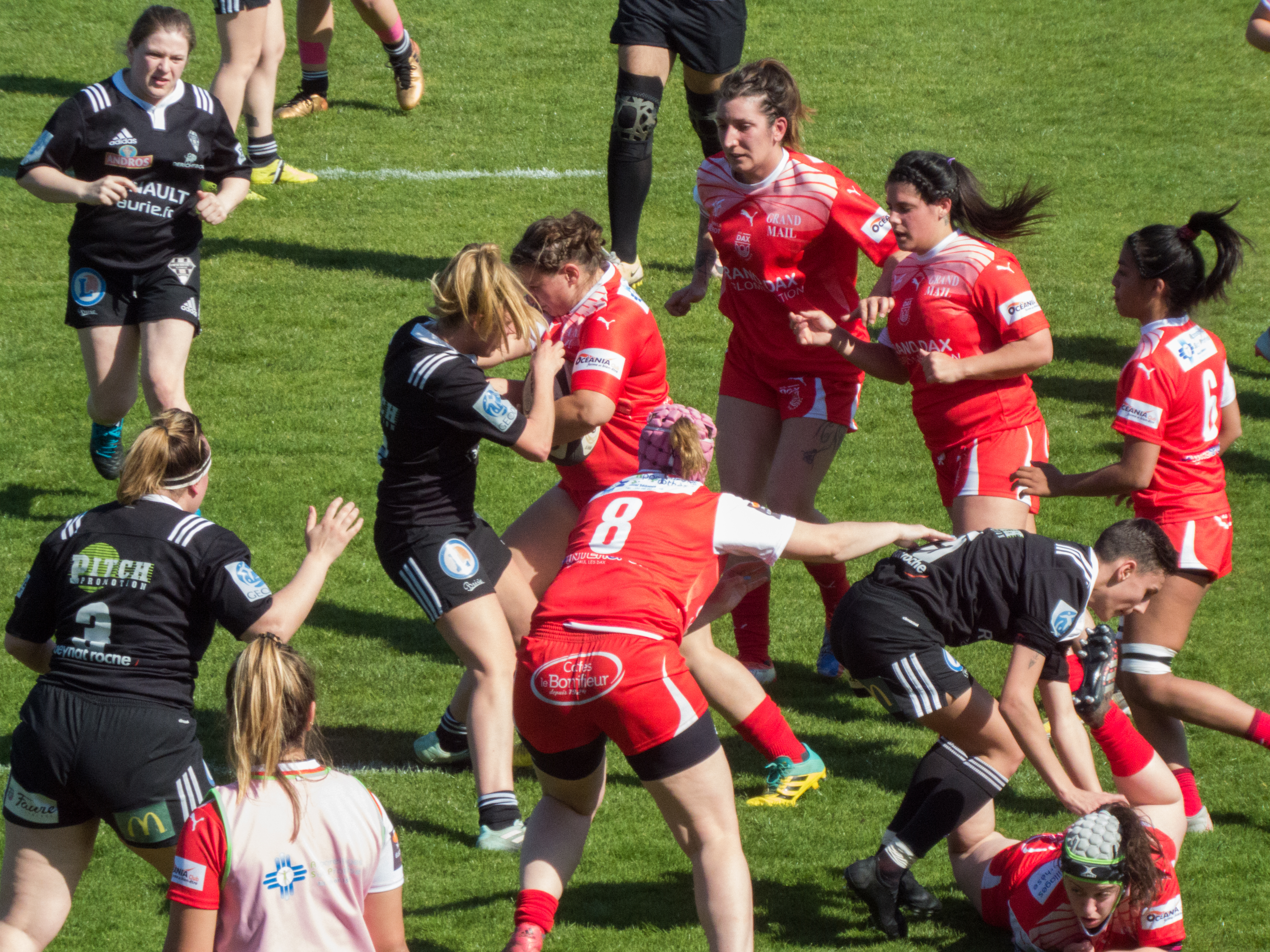 Q60050780 — 24 March 2019, stade Maurice-Boyau. Match between: Q3360155 — CA Brive (women)